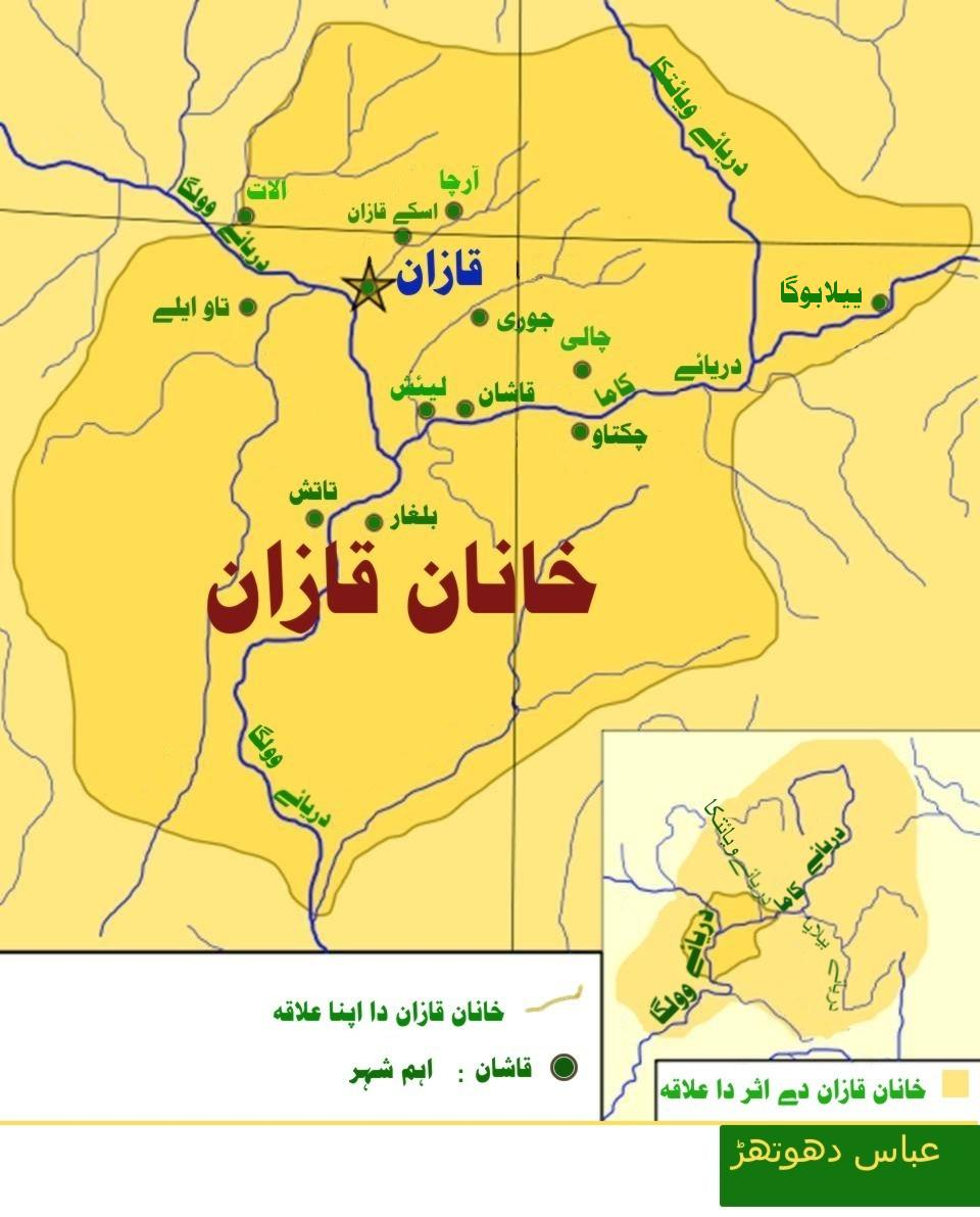 A map of Kazan Khanate in Punjabi.